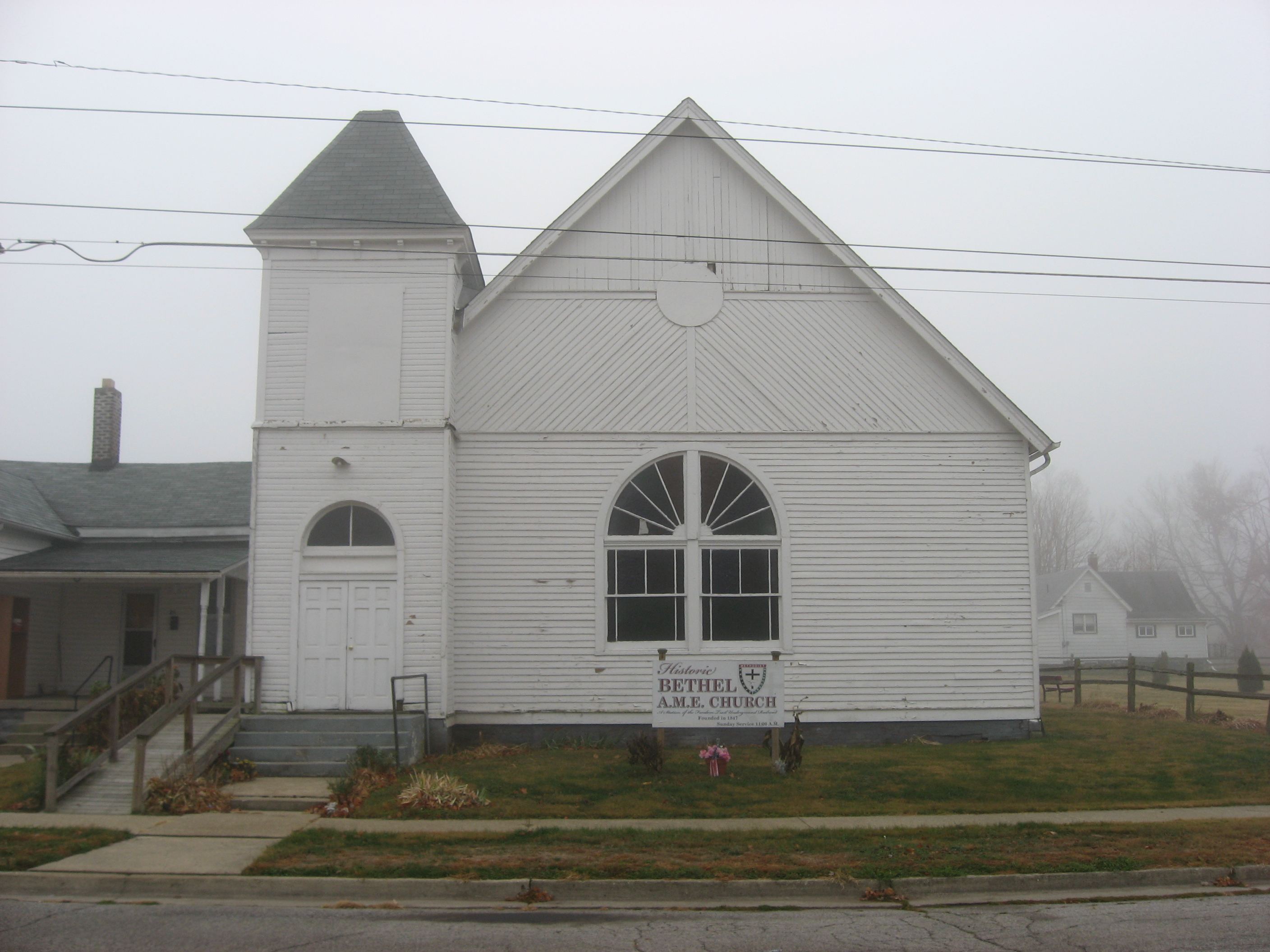 Front of the Bethel AME Church of Crawfordsville, located at 213 W. North Street in Crawfordsville, Indiana, United States. Built in 1892, it is listed on the National Register of Historic Places.